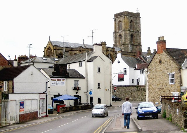 Market Street, Yeovil Looking back along Market Street towards St John's Church and the bottom of Silver Street. The Pall Tavern is on the left and the old cattle market runs above on the right hand side out of sight.